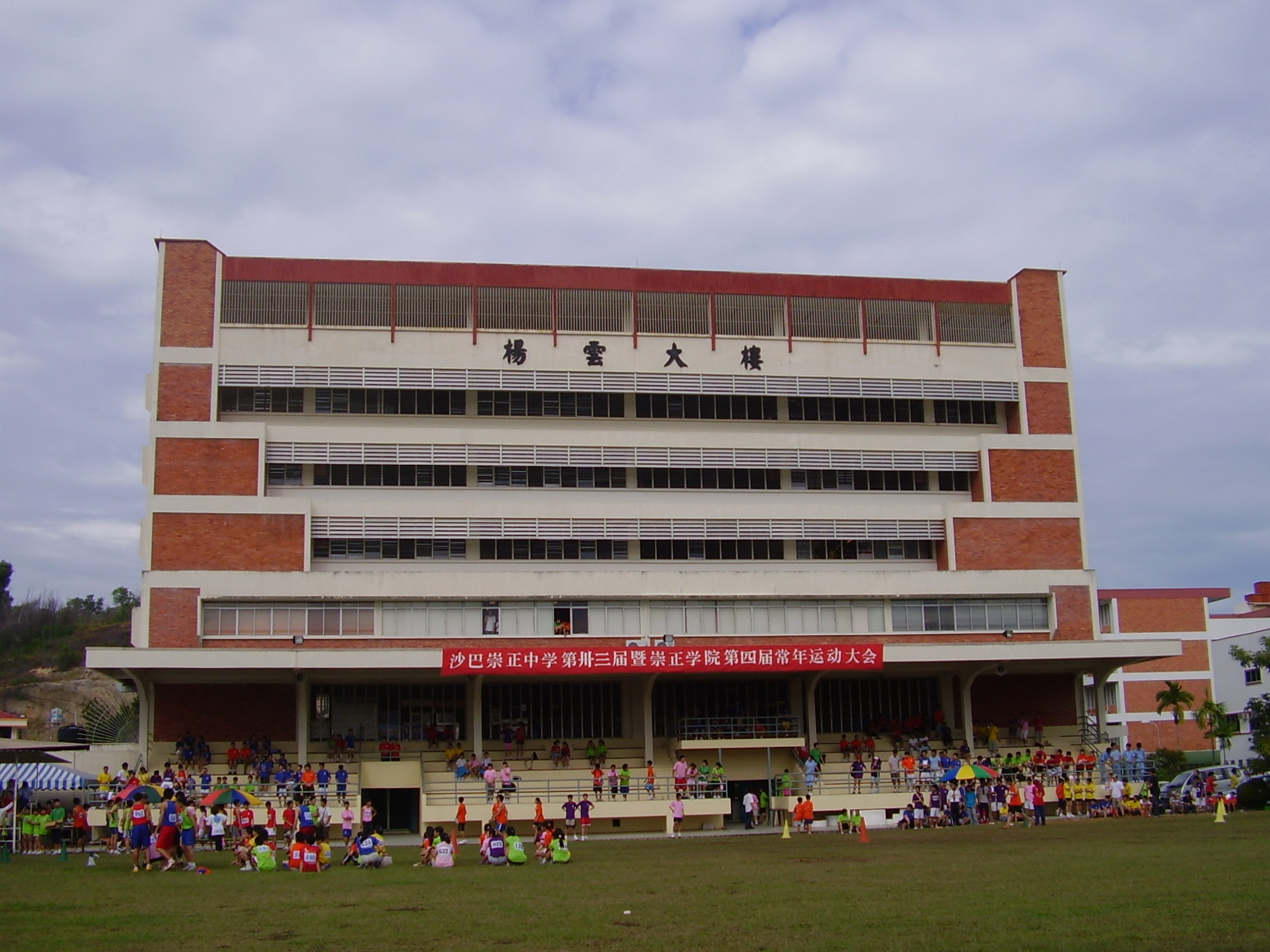 Photo of the Co-Curricular Activity building of Tshung Tsin